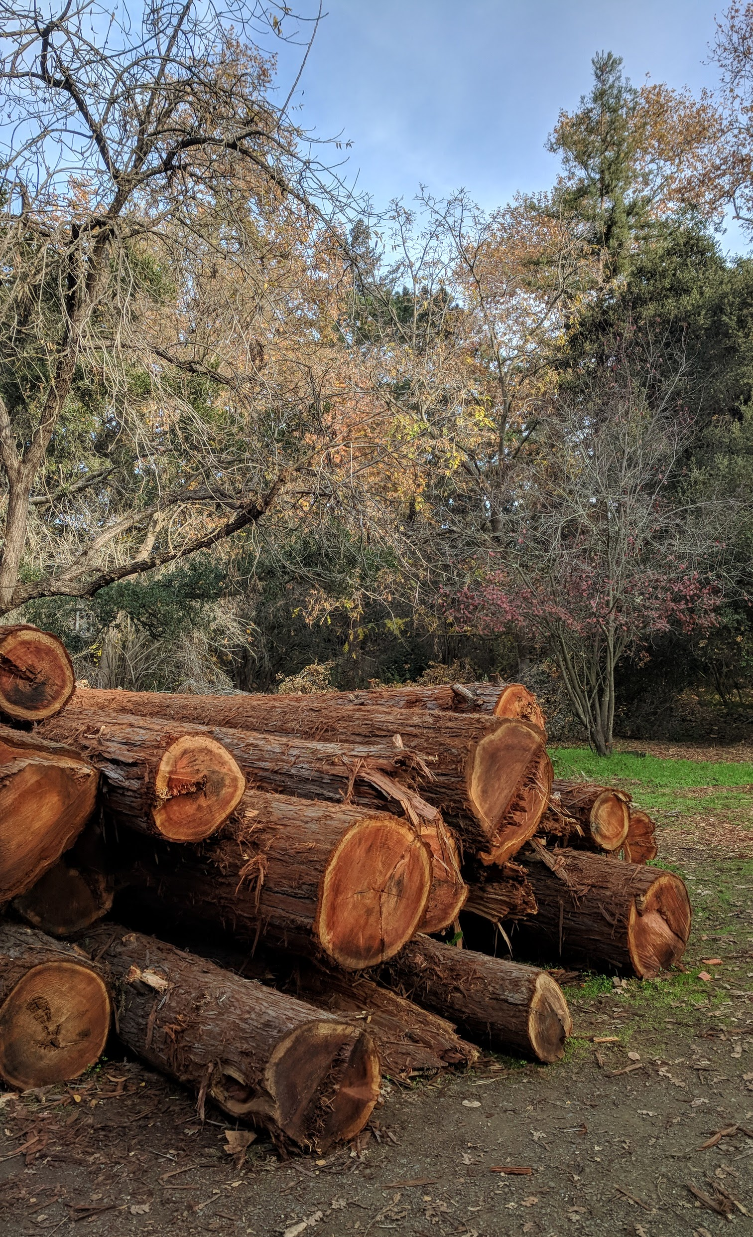 Dead and diseased redwood trees at the Los Altos Redwood Grove Nature Preserve were cut down and will be milled on site.